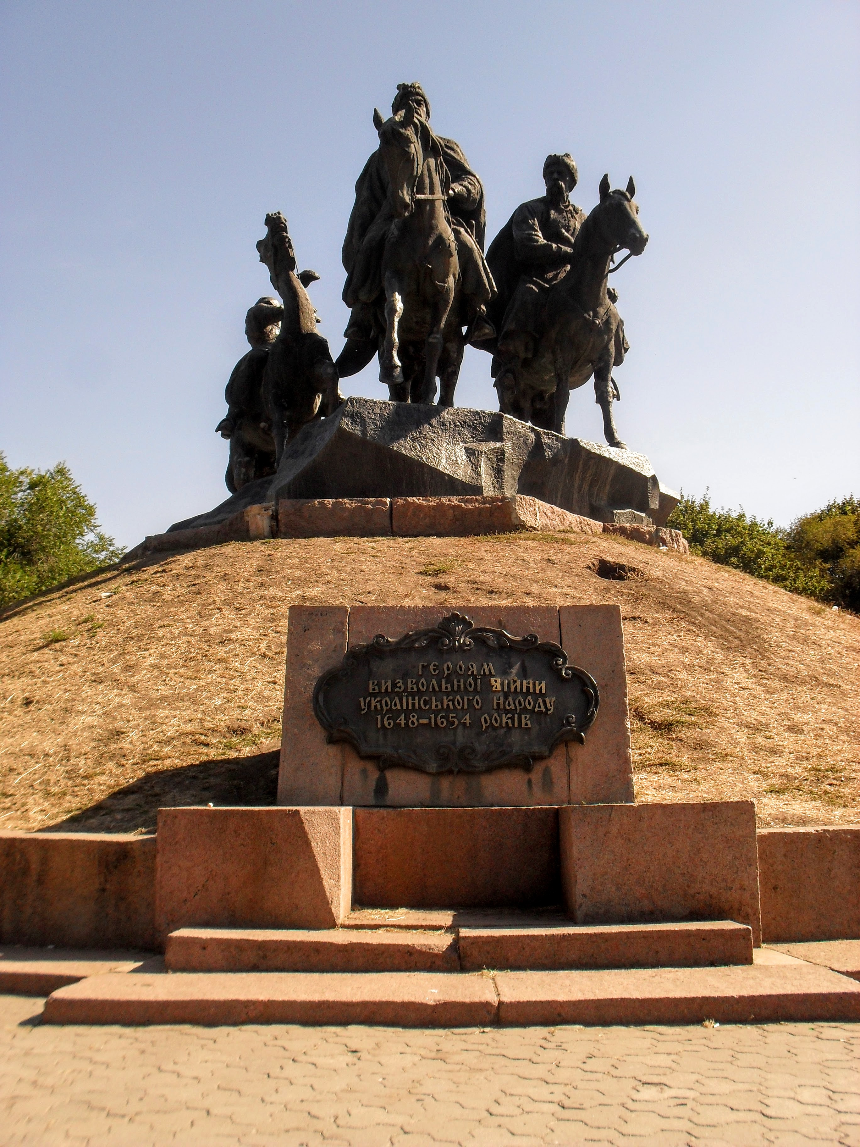 Commemorative plaque